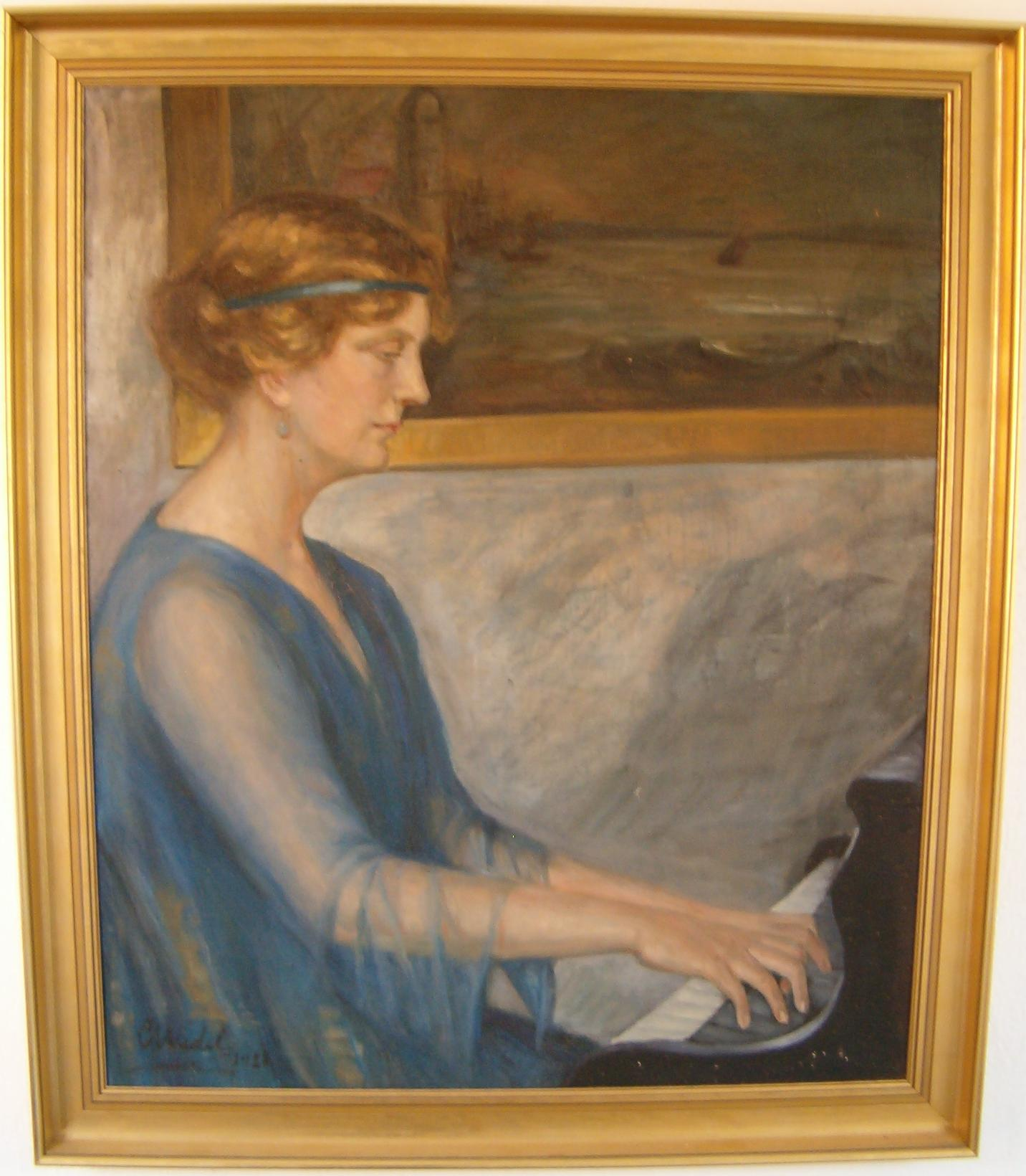 Baroness Christiane Rosenkrantz (1879-1960), daughter of count Bendt Wedell-Wedellsborg. Owner of Rosenholm Castle in Jutland, Denmark. Painted 1923.